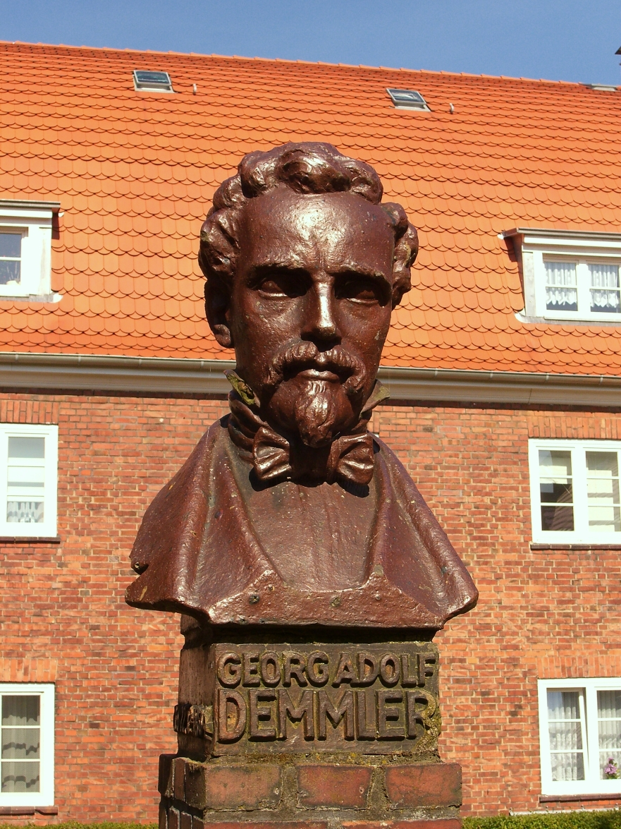 Memorial to Georg Adolf Demmler in Schwerin